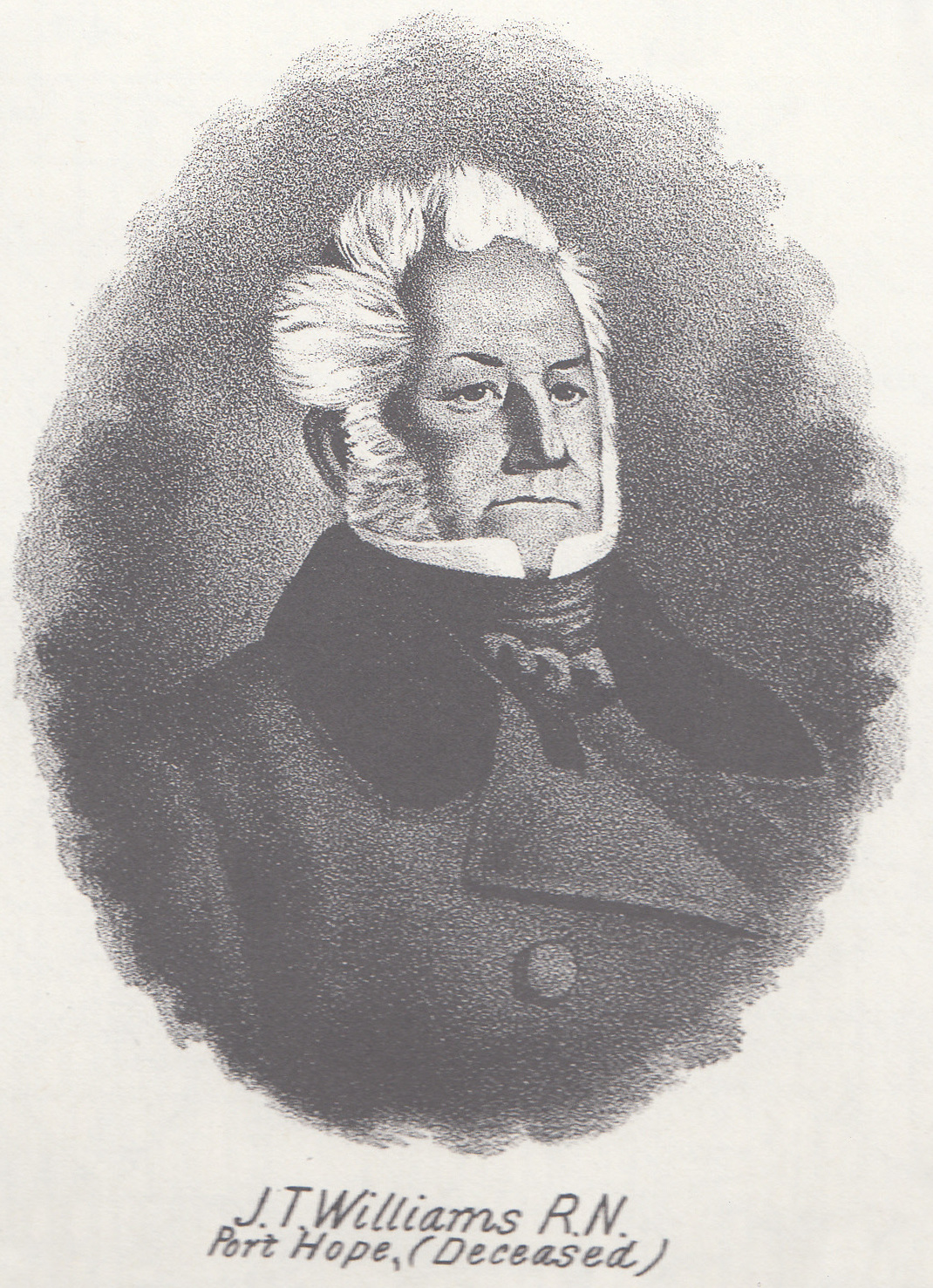 Portrait of John Tucker Williams (1789-1854), RN, Canadian politician from town of Port Hope